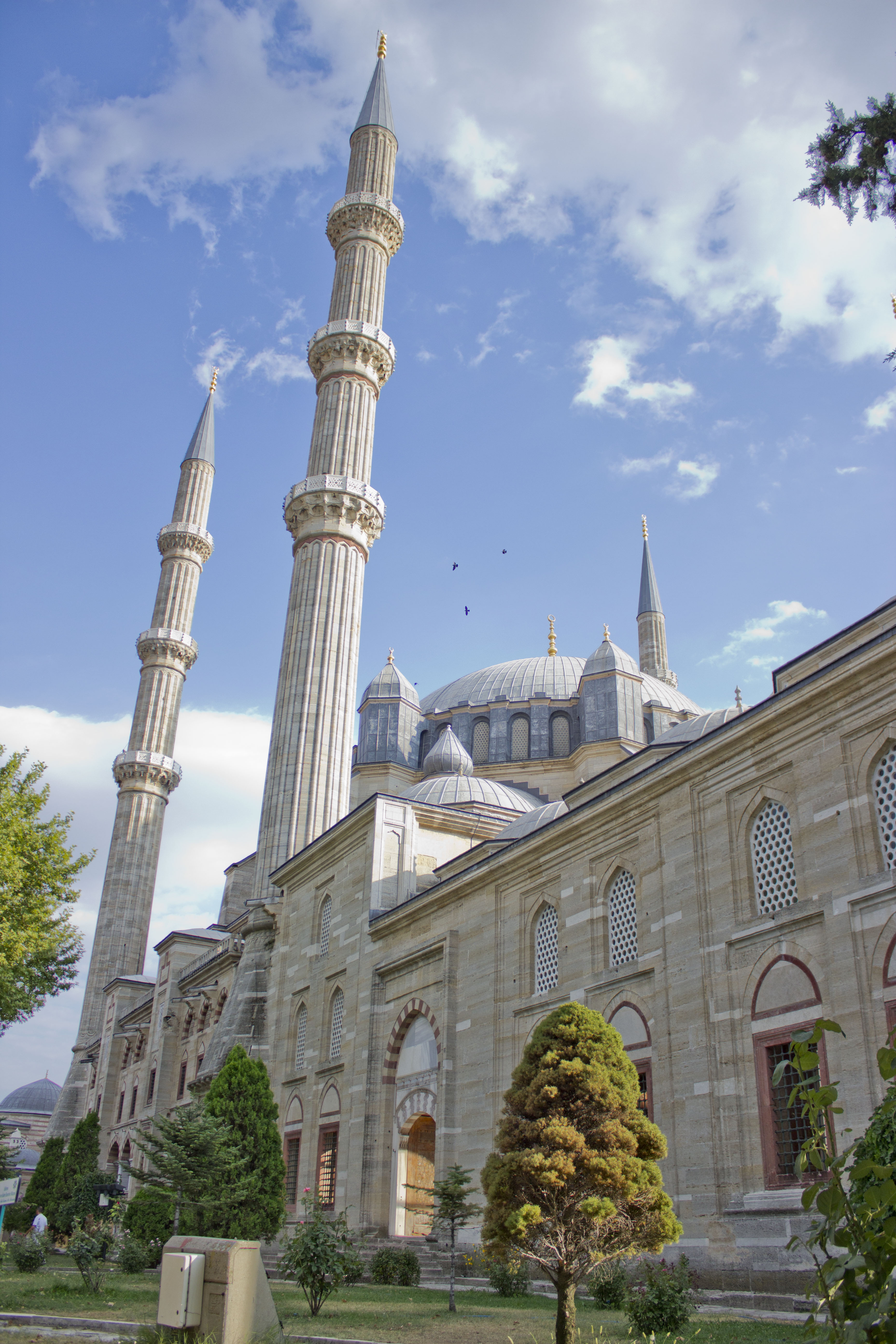 View of Selimiye mosque in Edirne, Turkey